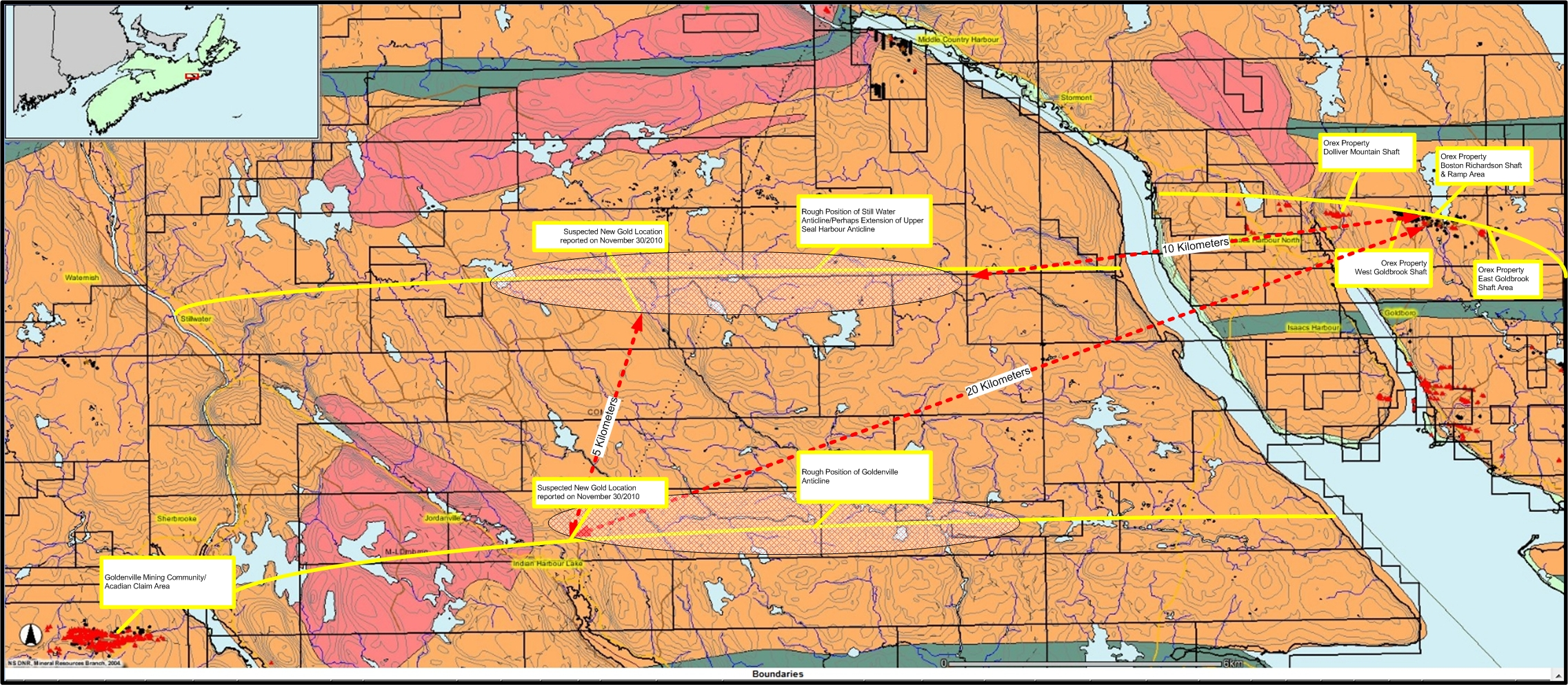 The contributor created the image using public data available through the Nova Scotia Government's Mineral Rights Database referenced above ( The image is a screen capture of the output from the results.